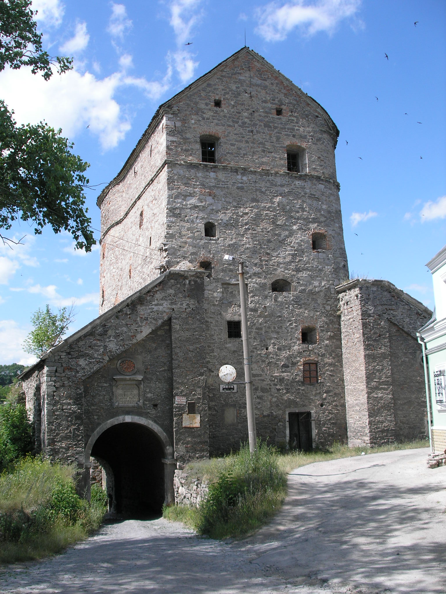 An old city gate in Kamianets-Podilskyi, Ukraine